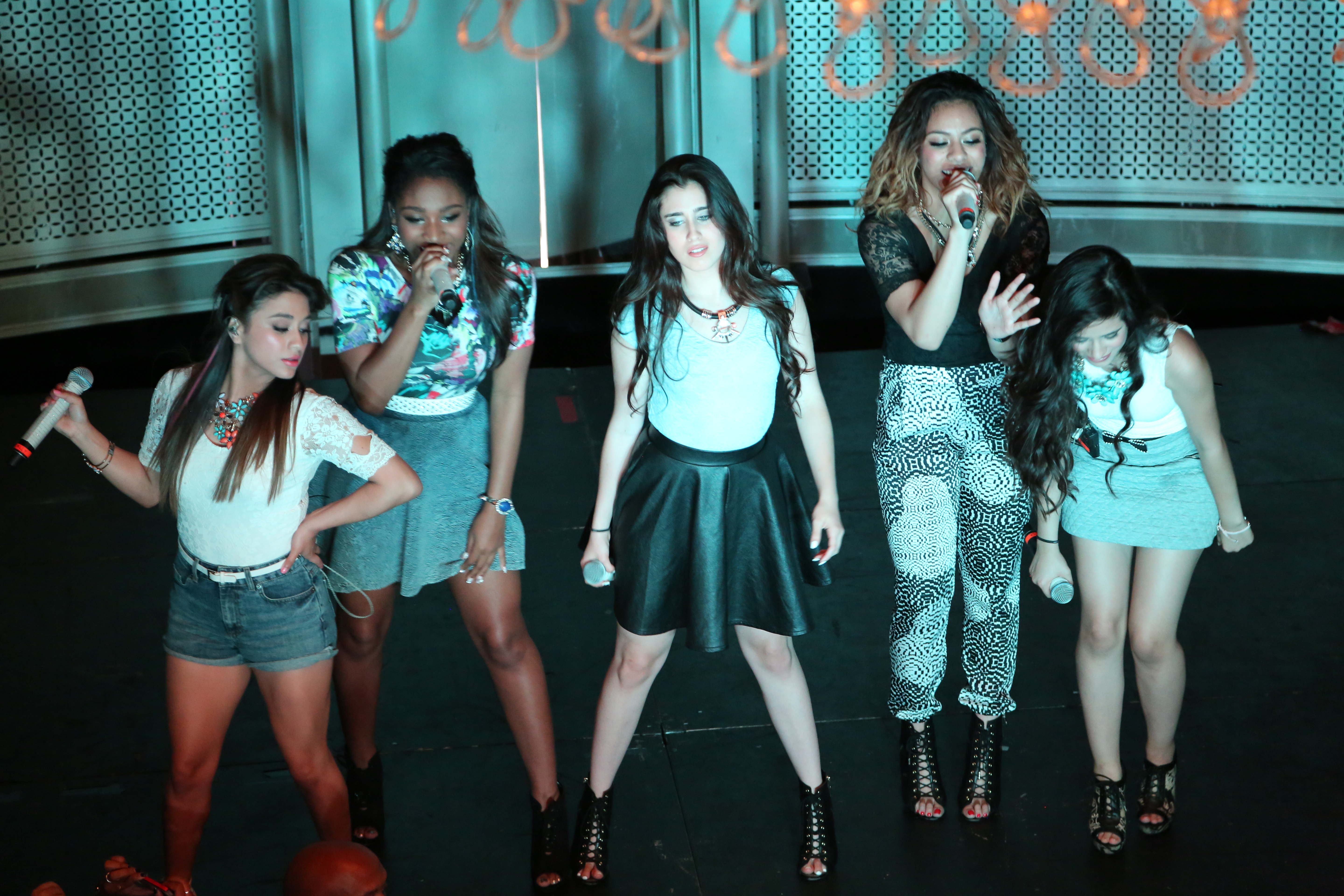 Fifth Harmony